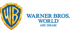 Logo for Warner Brothers Abu Dhabi Park